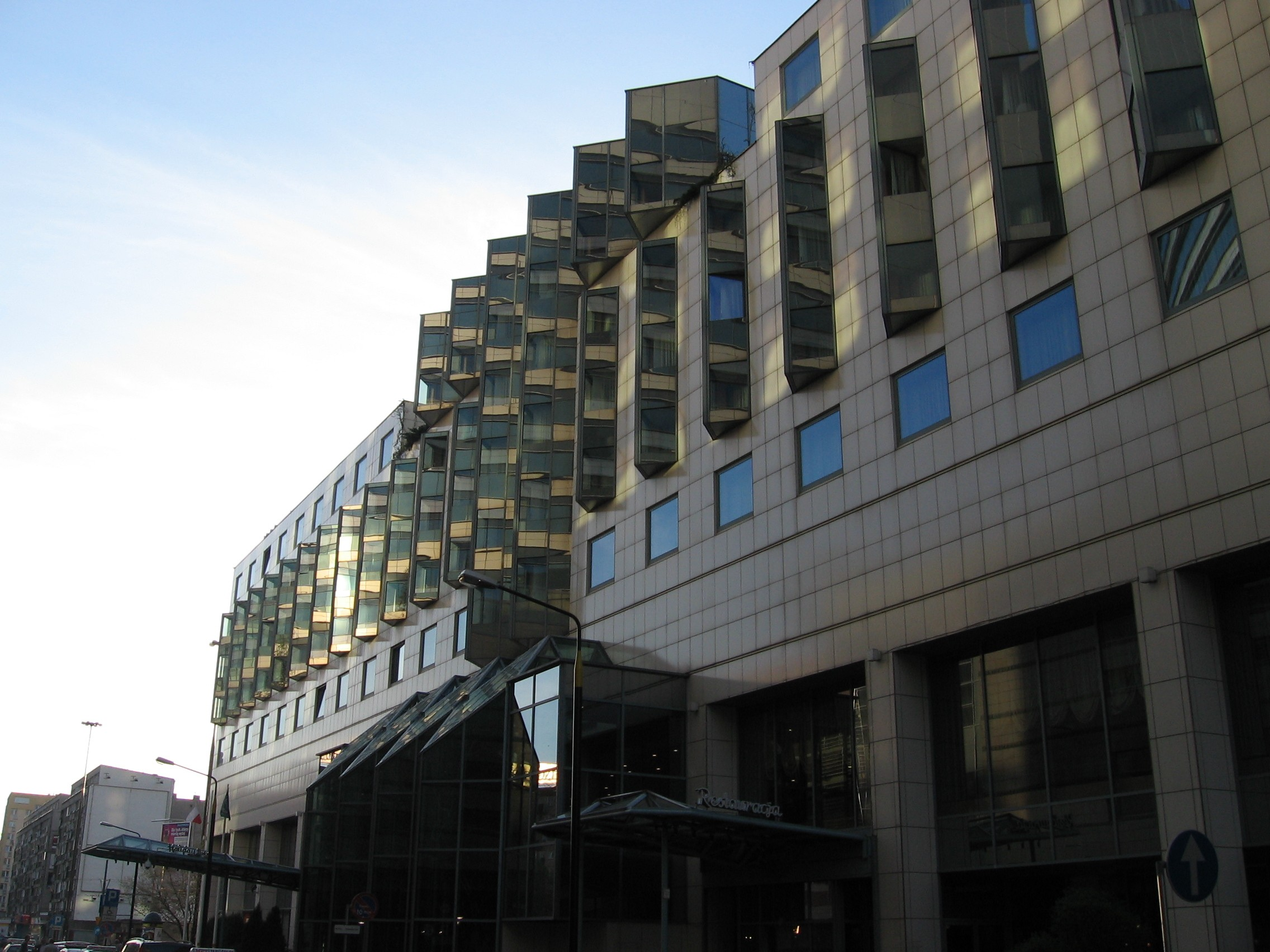 Holiday Inn, Warsaw, Poland